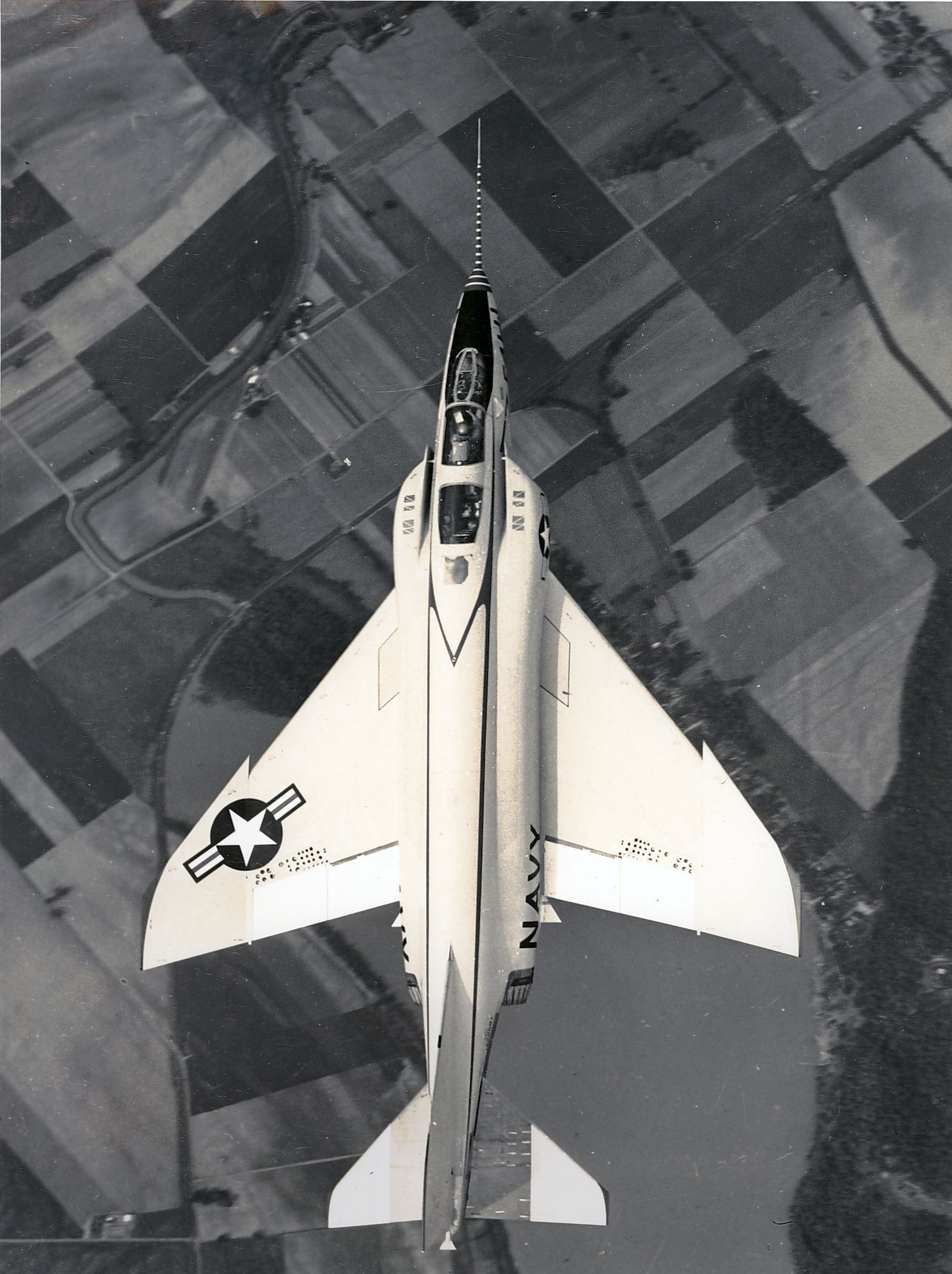 Overhead view of the first U.S. Navy McDonnell YF4H-1 Phantom II (BuNo 142259) during a test flight. This aircraft crashed on 21 October 1959. The pilot was killed.